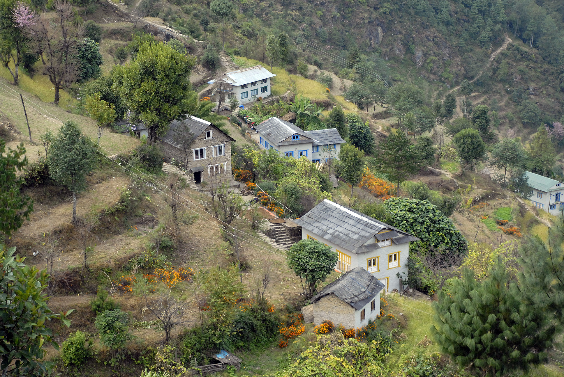 Good houses are near the Kharikhola.